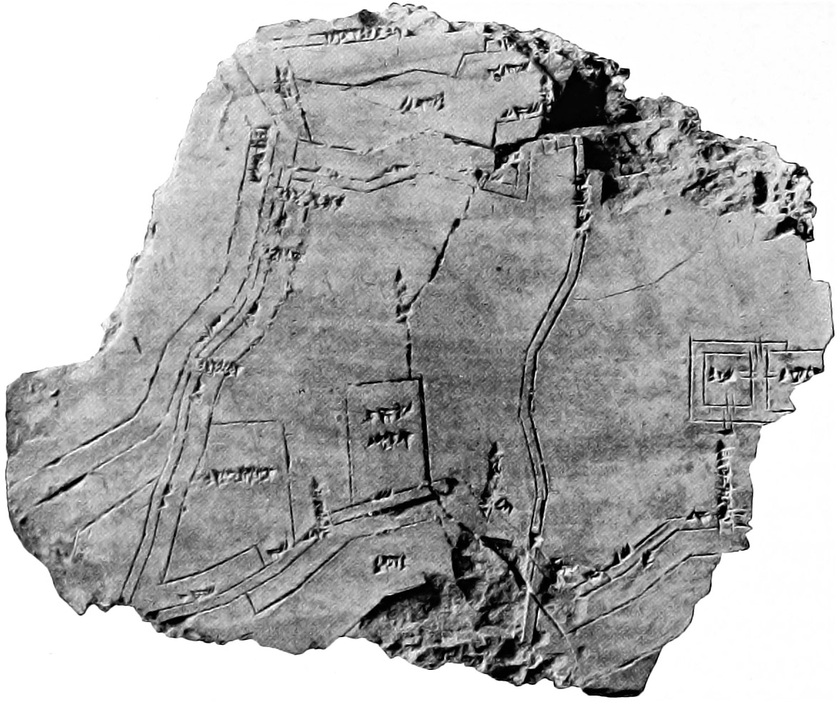 Clay tablet containing city map of Nippur